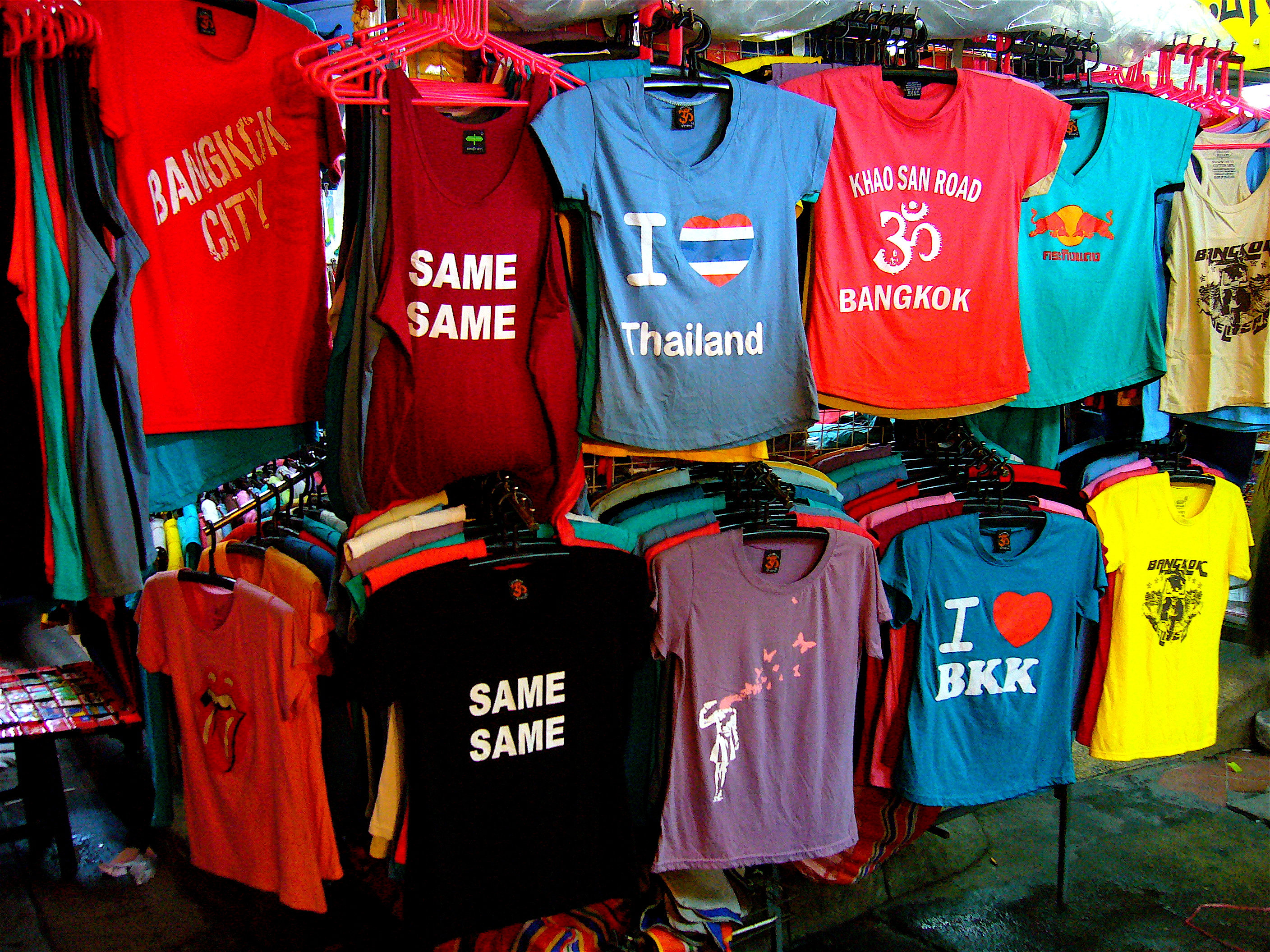 Clothing shop. Khao San Road, Bangkok, Thailand.